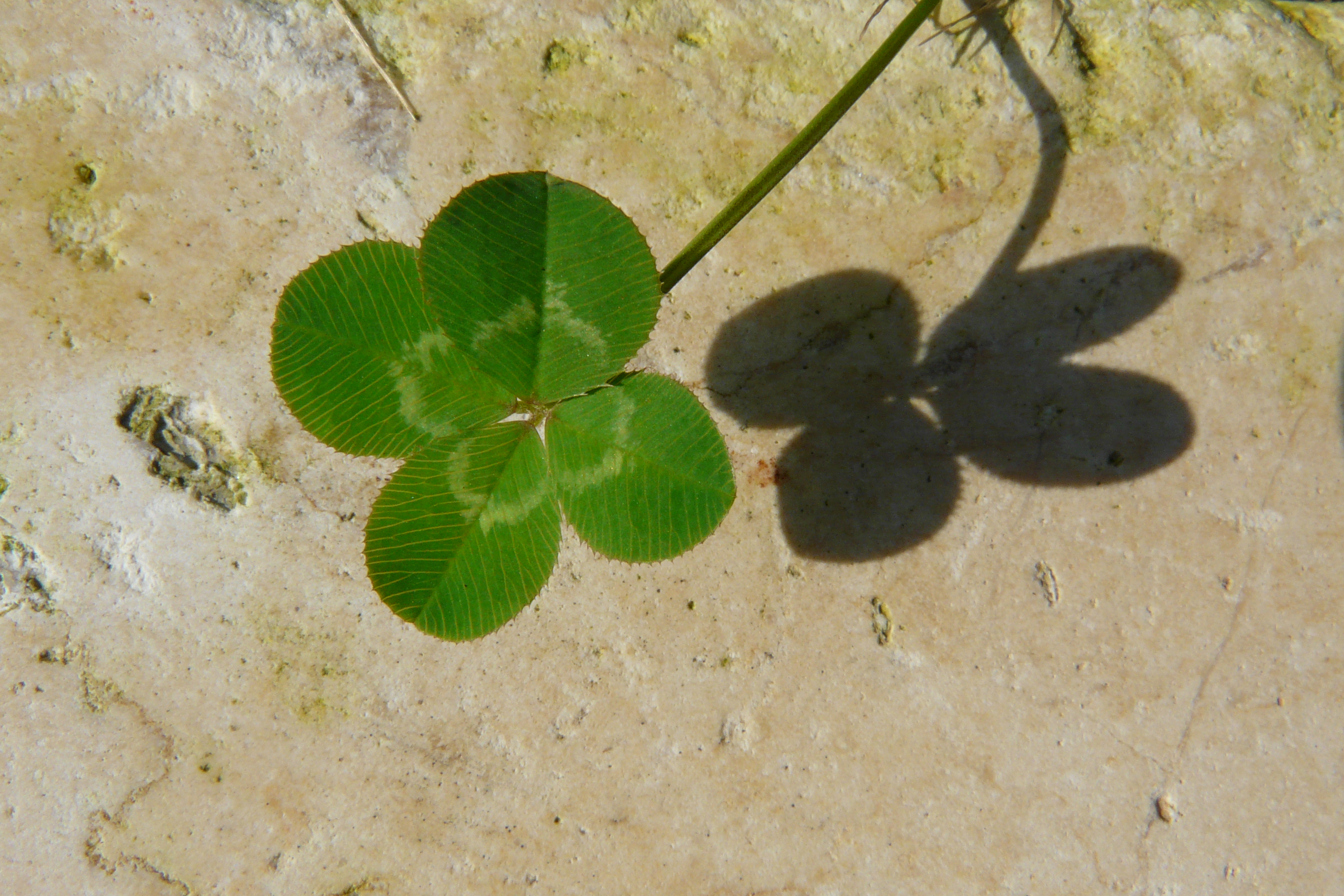 Four-leaved clover (Trifolium repens)